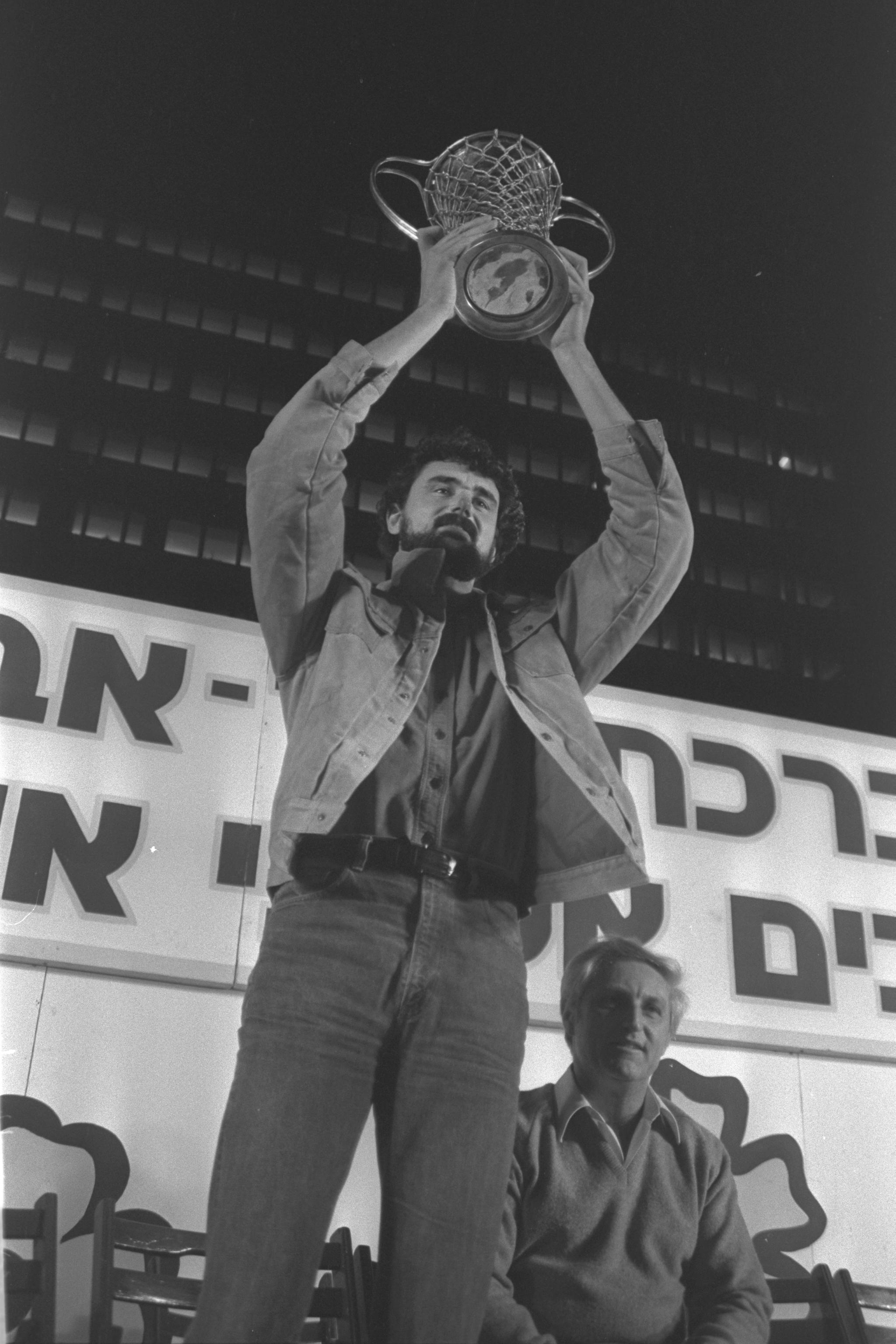 Jim Boatwright, captain of the Maccabi Tel Aviv basketball team, holds the 1981 European Cup. In the background Shlomo Lahat. Mayor of Tel-Aviv at the time. גים בוטריט, קפטן מכבי תל אביב, מניף את גביע היורוליג ברקע, שלמה להט. ראש עריית ת"א בזמנו Photo: Yaakov Saar (1951–) Alternative names SA'AR YA'ACOV; Jacob Saar; Saʻar, YaʻaḳovDescriptionIsraeli photographerDate of birth 1951 Authority control : Q28751896 VIAF: 298161188 NLI: 001394176 creator QS:P170,Q28751896 , 03/28/1981